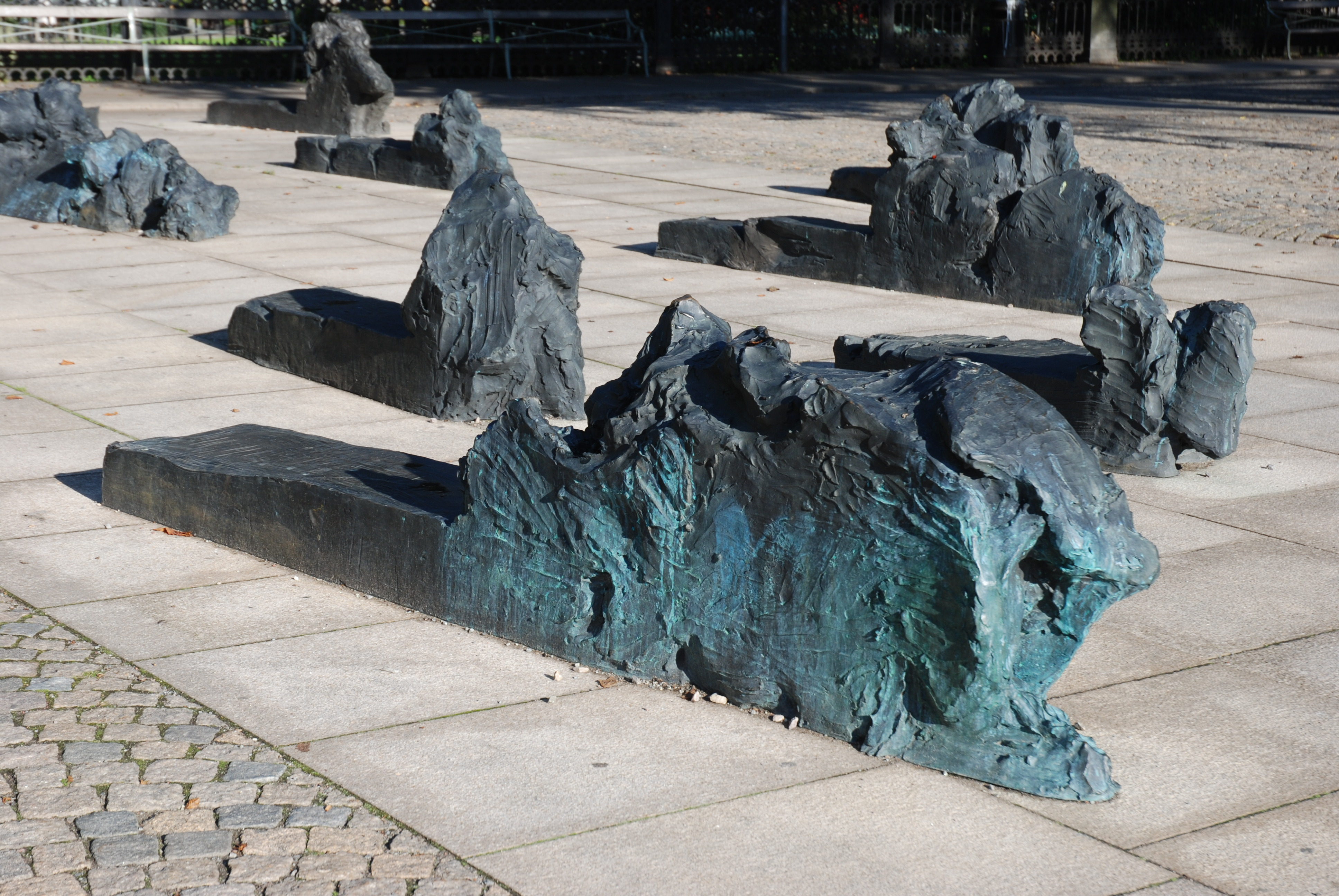 Kirsten Ortweds Till Raoul Wallenberg, Nybroplan i Stockholm